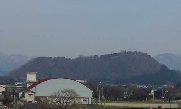 Gagyu-san hill, Murakami city, Niigata prefecture, Japan. Murakami castle was located on the top of the hill from the 16C to 19C.